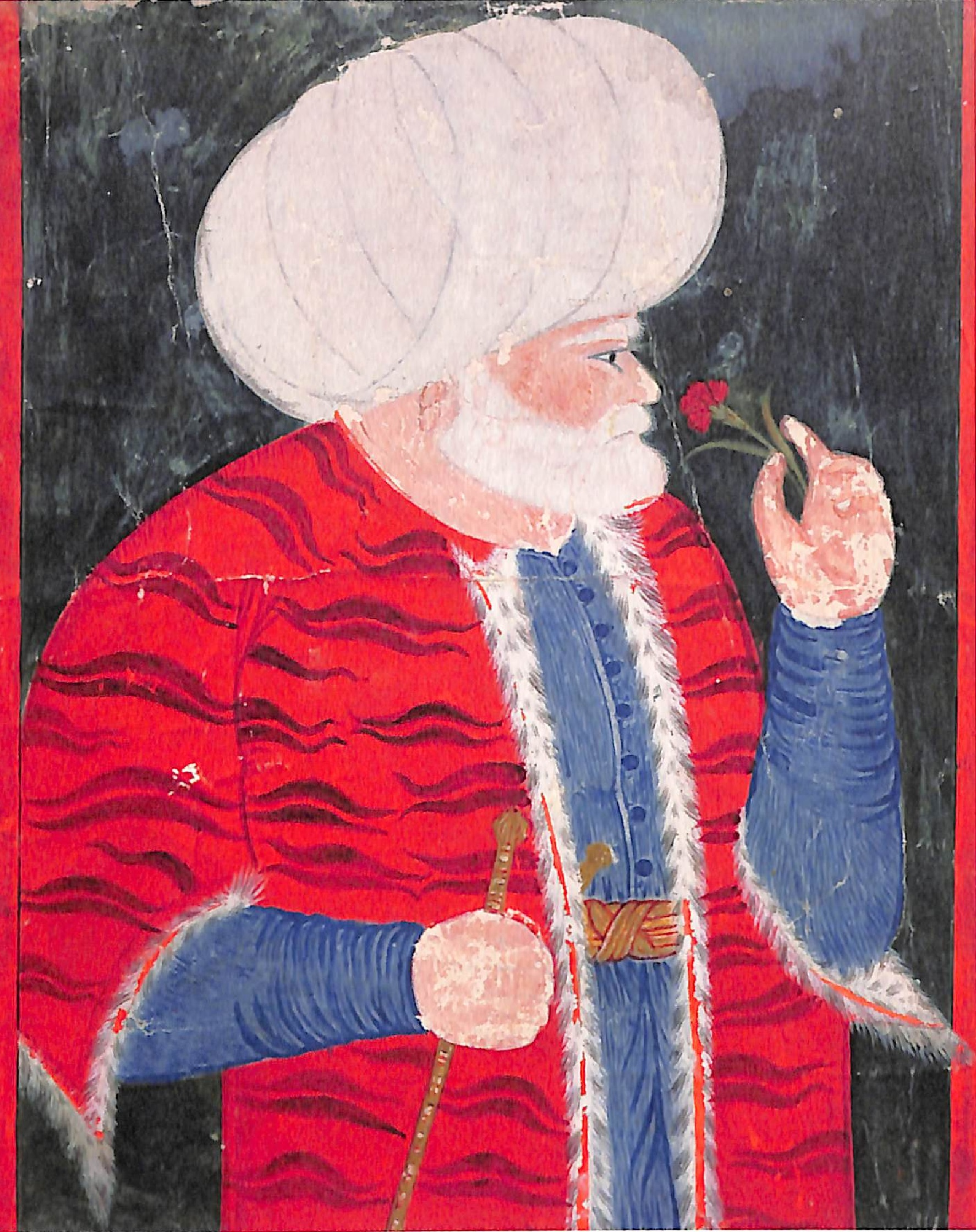 Ottoman admiral Barbaros Hayreddin Pasha ('Barbarossa' - 'Red Beard') (1478-1546).